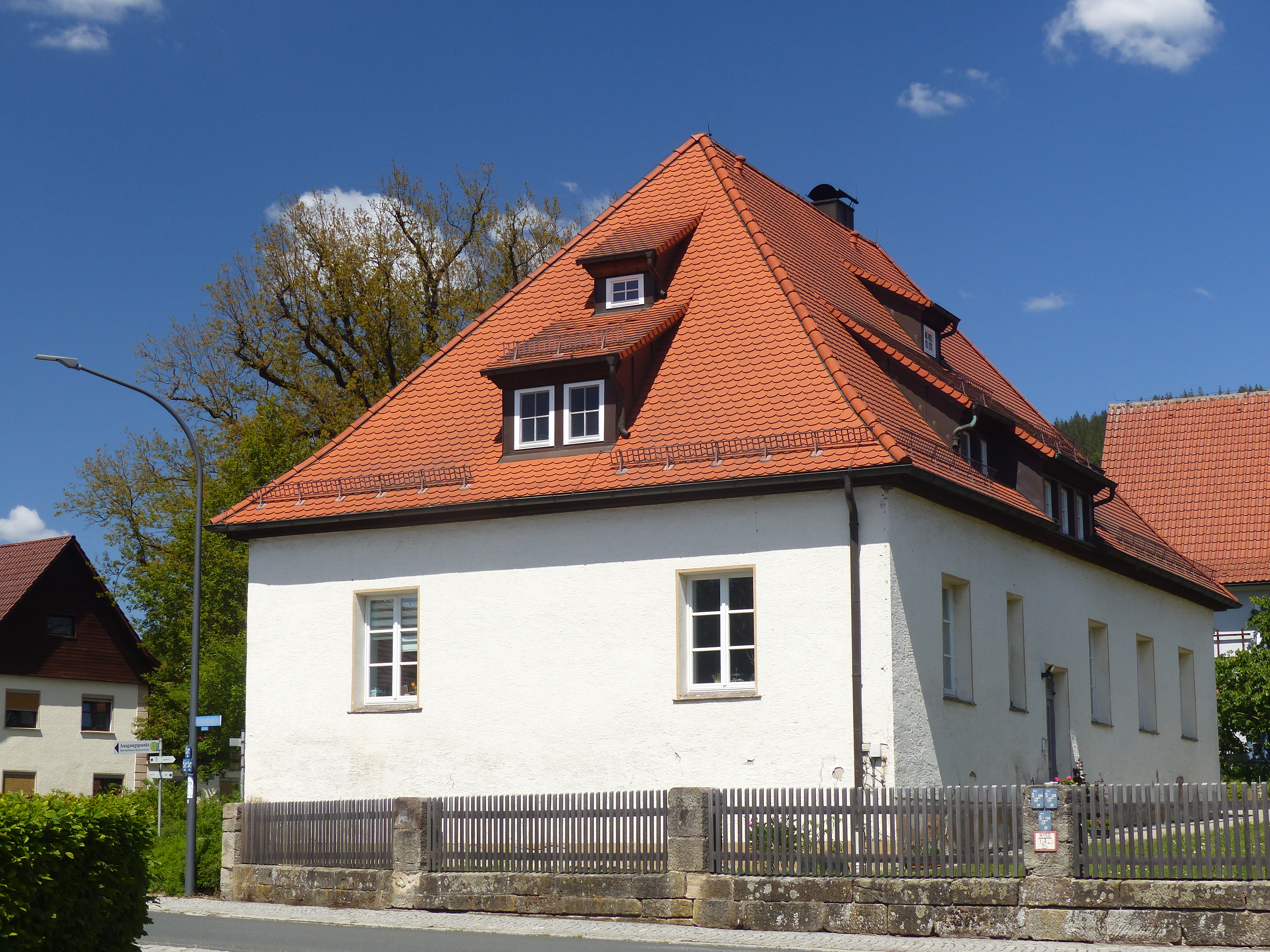 The former Amtshaus (official residence) of the Amt Seibelsdorf, an administrative body of the Principality of Bayreuth.